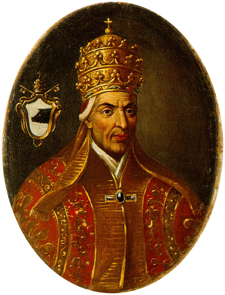 Painting in color of Alexander II, pope